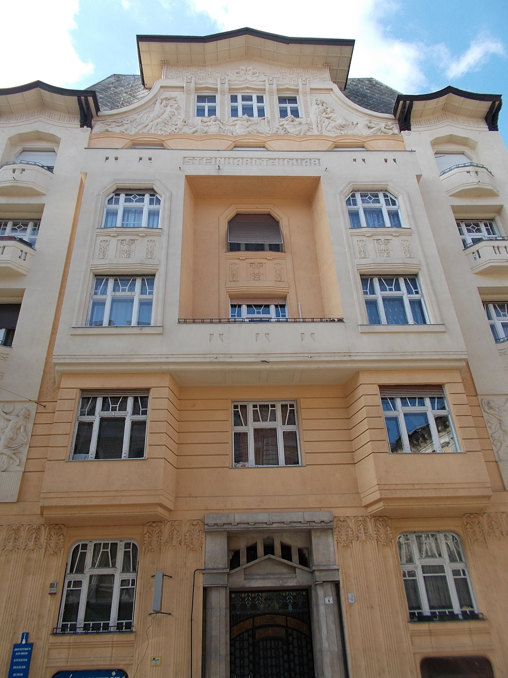 Steinhardt yard or Steinhardt house. - Alsó erdősor, Budapest District VII.